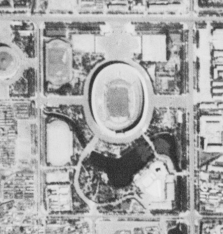 Workers' Stadium. Spatial tentatively corrected. 中文（中国大陆）: 工人体育场。空间上尝试性矫正过。